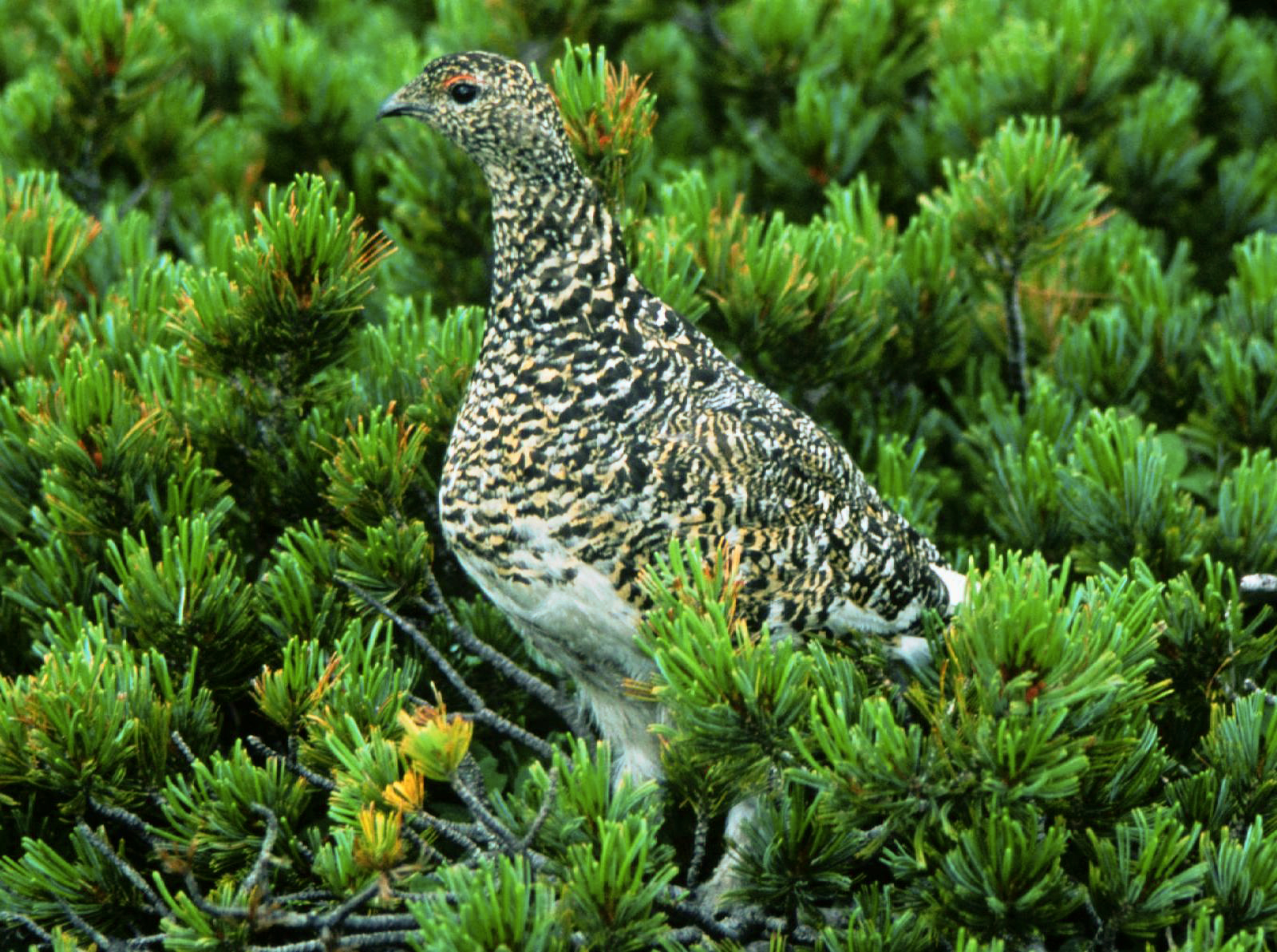 Rock Ptarmigan (Lagopus muta japonica, Lagopus mutus japonicus), female in Mount Sugoroku, Japan.